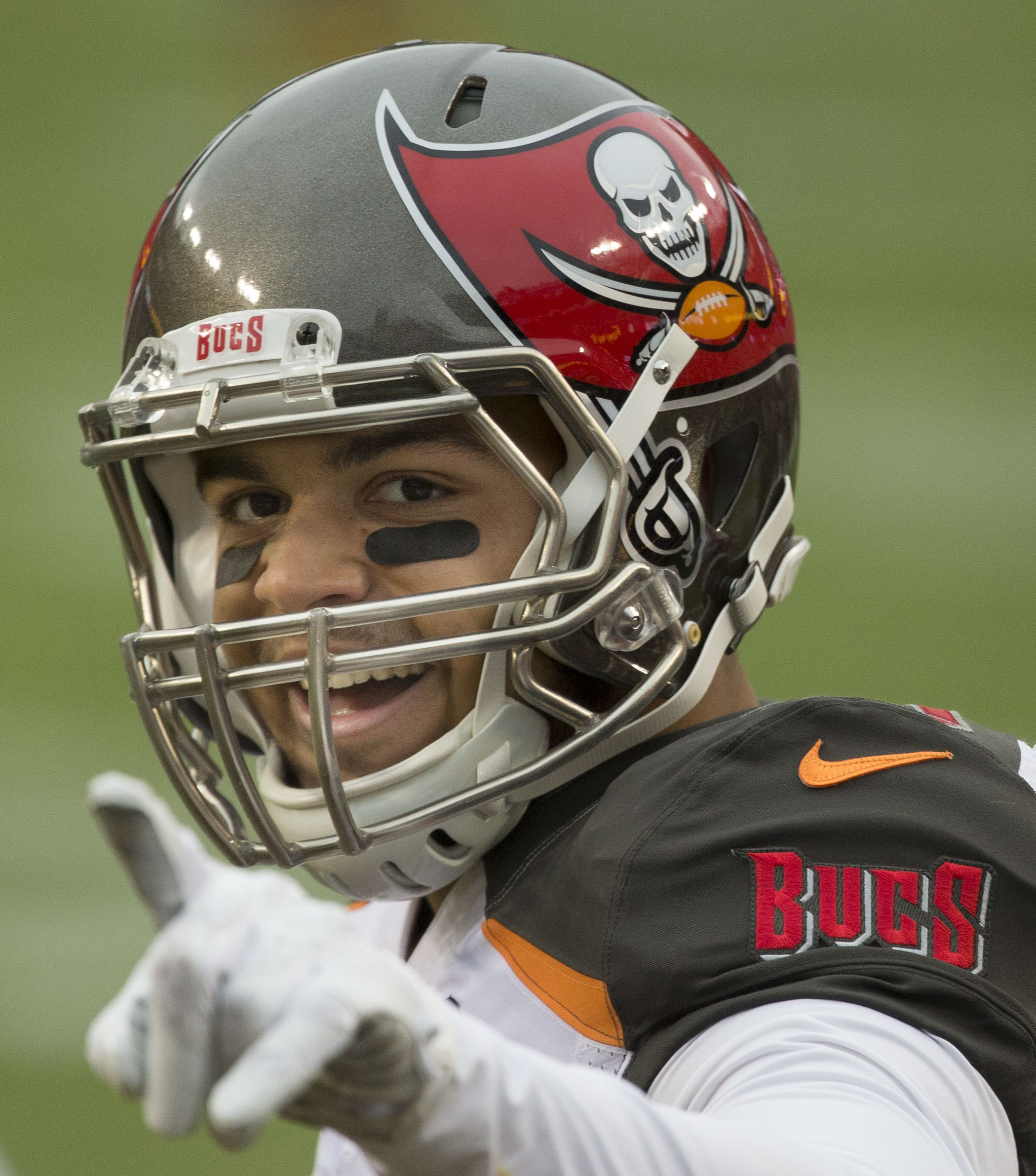 Mike Evans - Buccaneers at Redskins 11/16/14